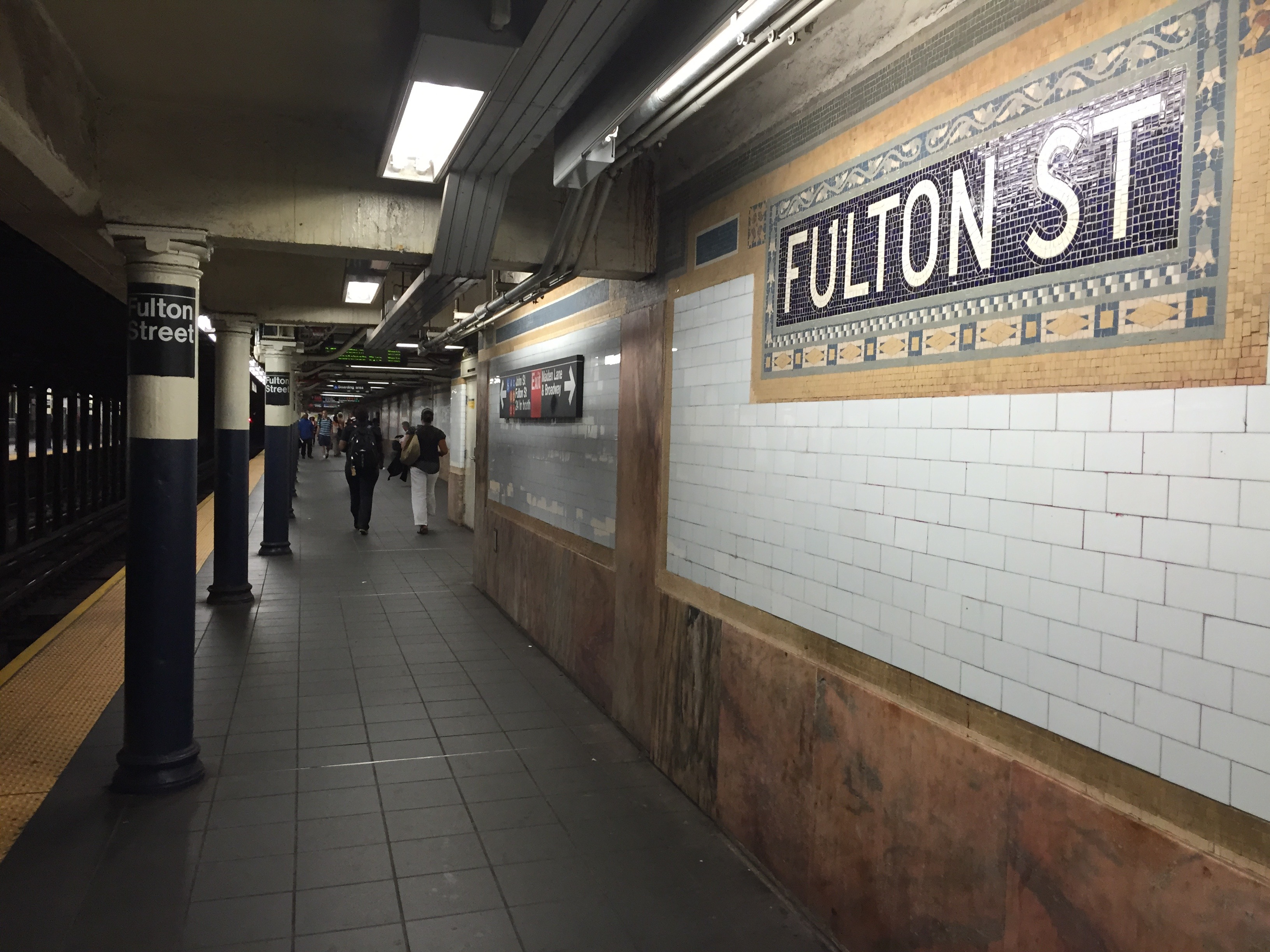 Uptown 4/5 platform at Fulton Street.